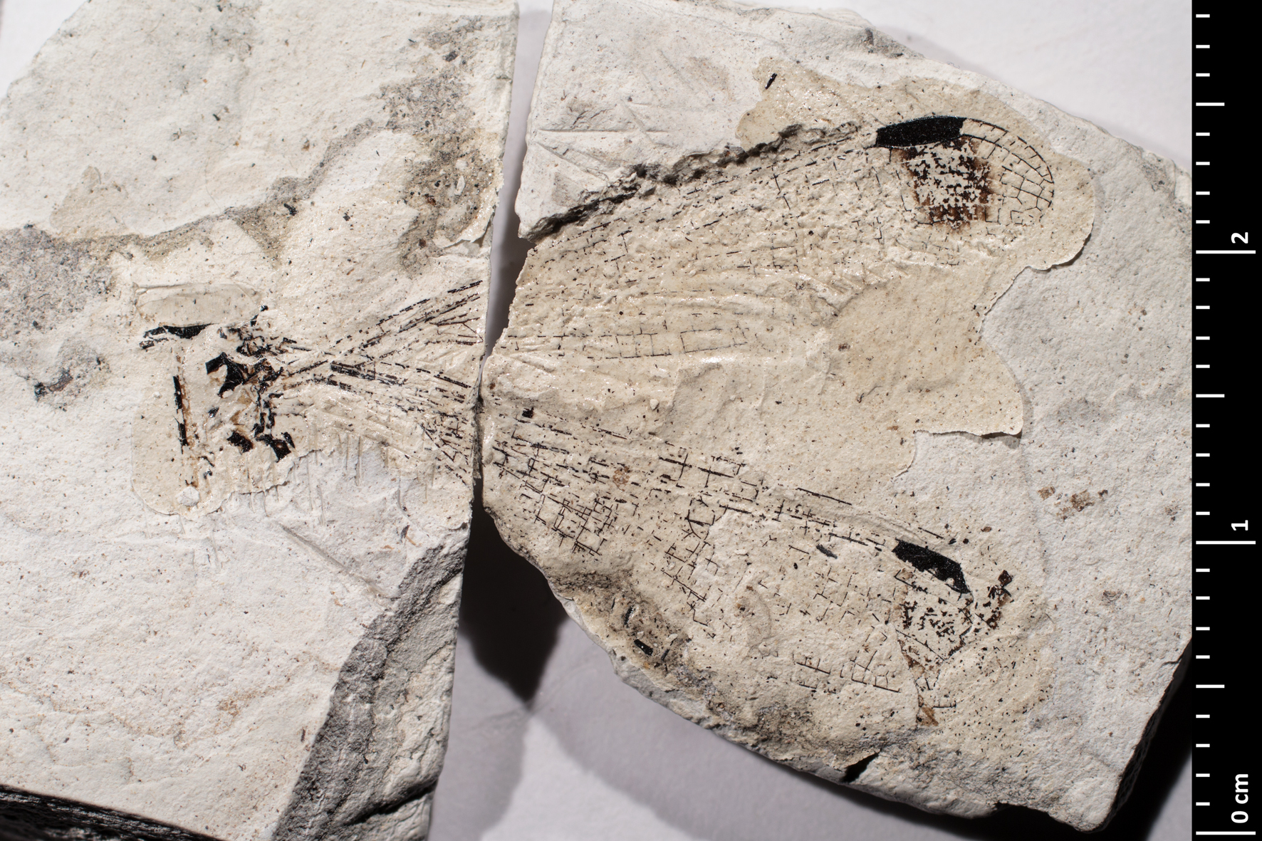 Vulcagrion andancensis holotype specimen part side with direct lighting. Turolian, Miocene; Montagne d'Andance, Saint-Bauzile, Privas, France Muséum national d'Histoire naturelle specimen MNHN.F.R10440